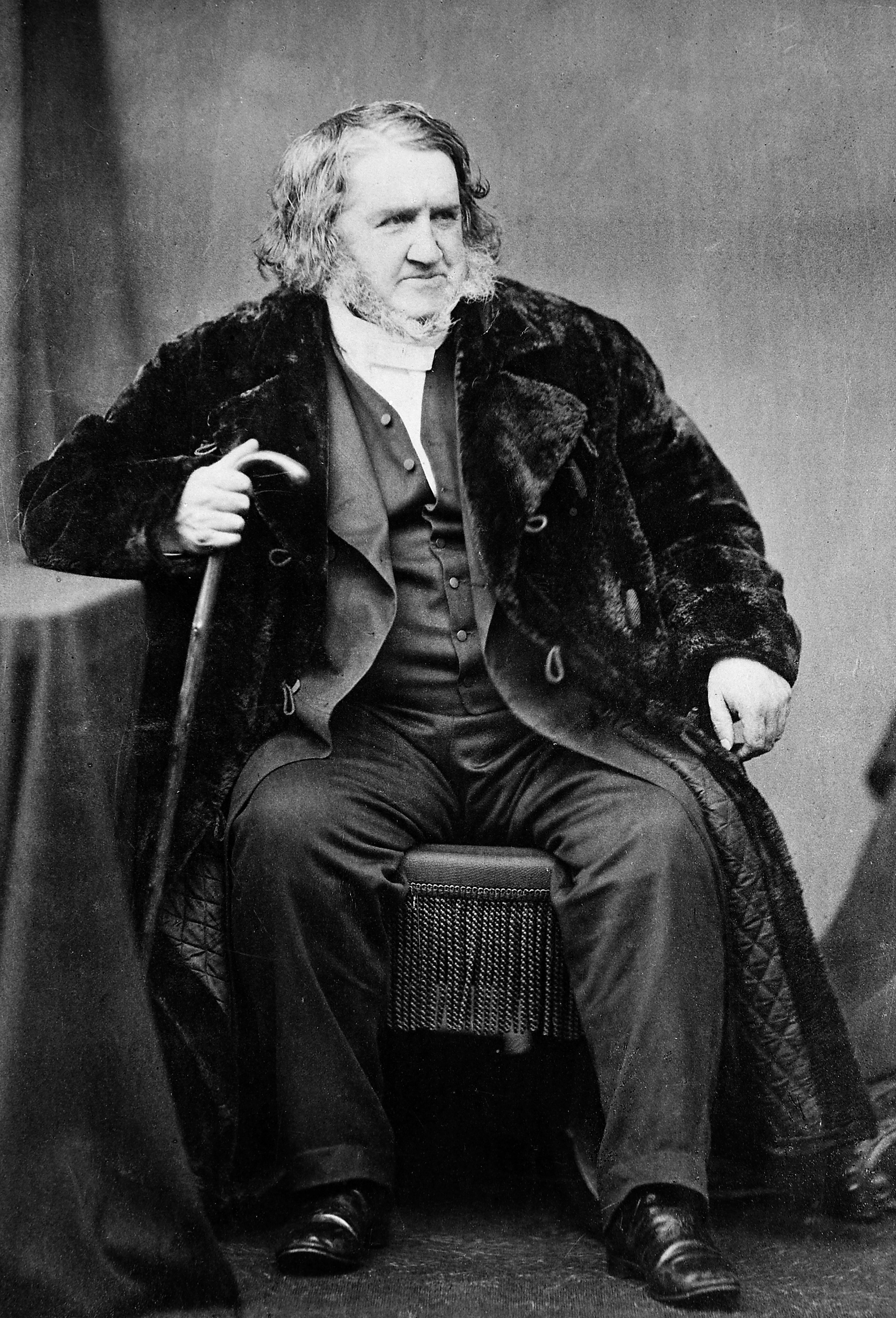 James Young Simpson (1811–1870), Scottish physician